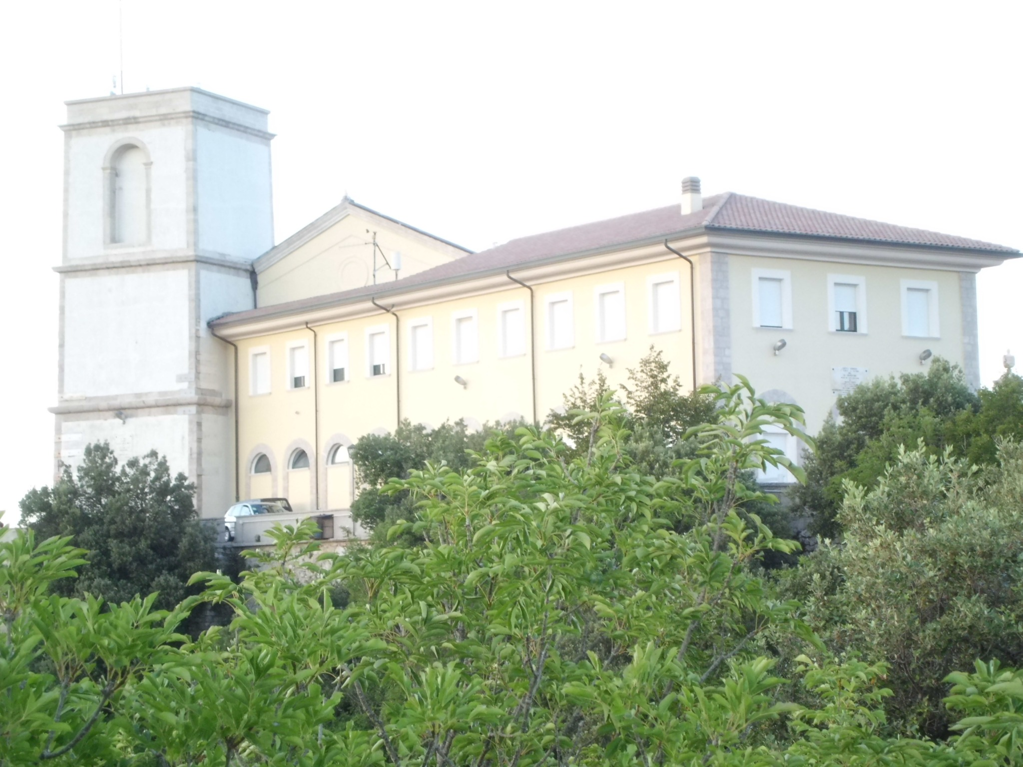 The whole structure of the Santissimo Salvatore sanctuary in Montella, Campania, Italy.